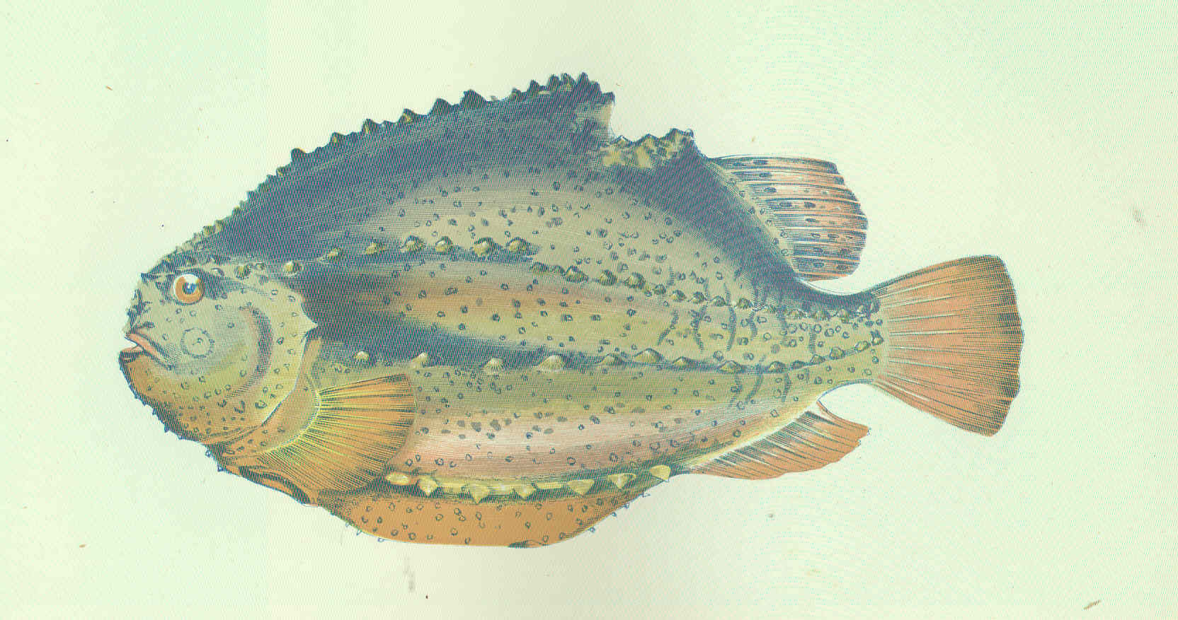 Lumpfish Lumpsucker Sea Owl Paddle Cockpaddle Lampus Anglorum Piscis globosus Cyclopterus lumpus Cycloptere lompre Subject: Lumpfish Tag: Fish